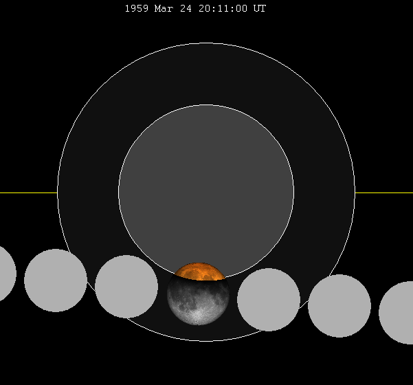 March 1959 lunar eclipse chart of moon's path through the earth's shadow. thumb